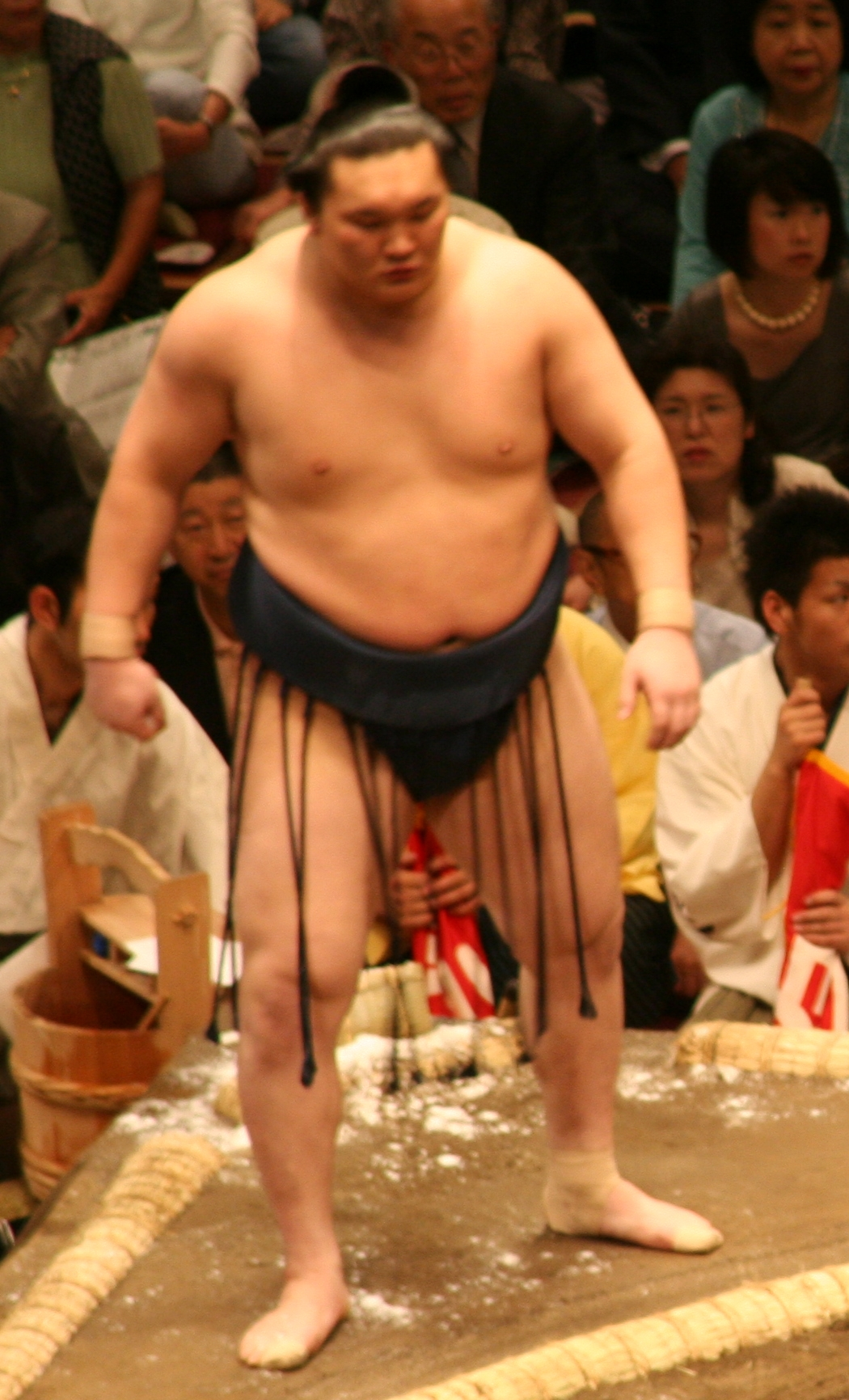 Sumo Wrestler Hakuhō Shō on the first day the of May Tournament 2007 in Tokyo.